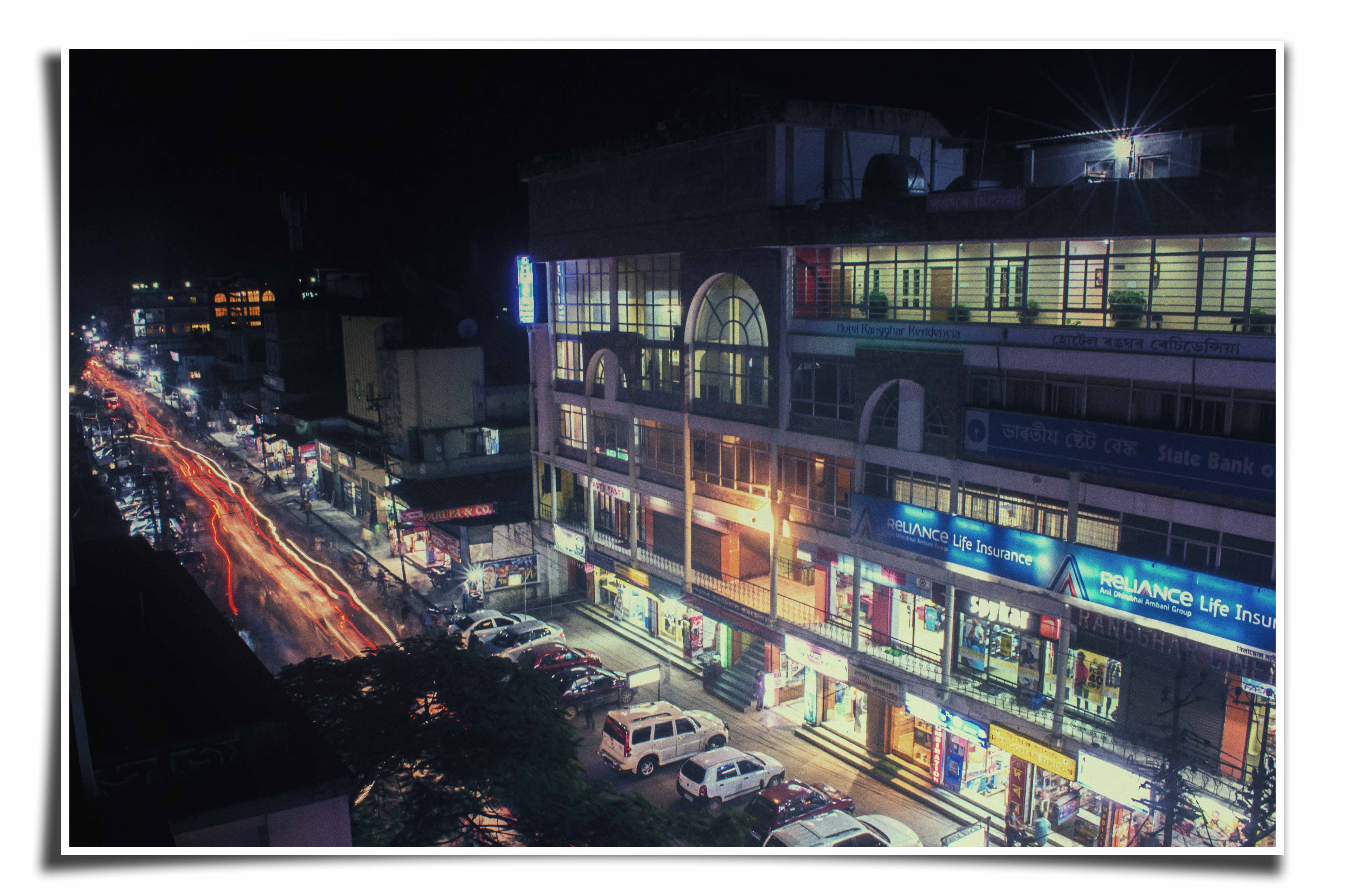 Category:Tinsukia: A long exposure photograph of the Ranghar Complex and the GNB Road